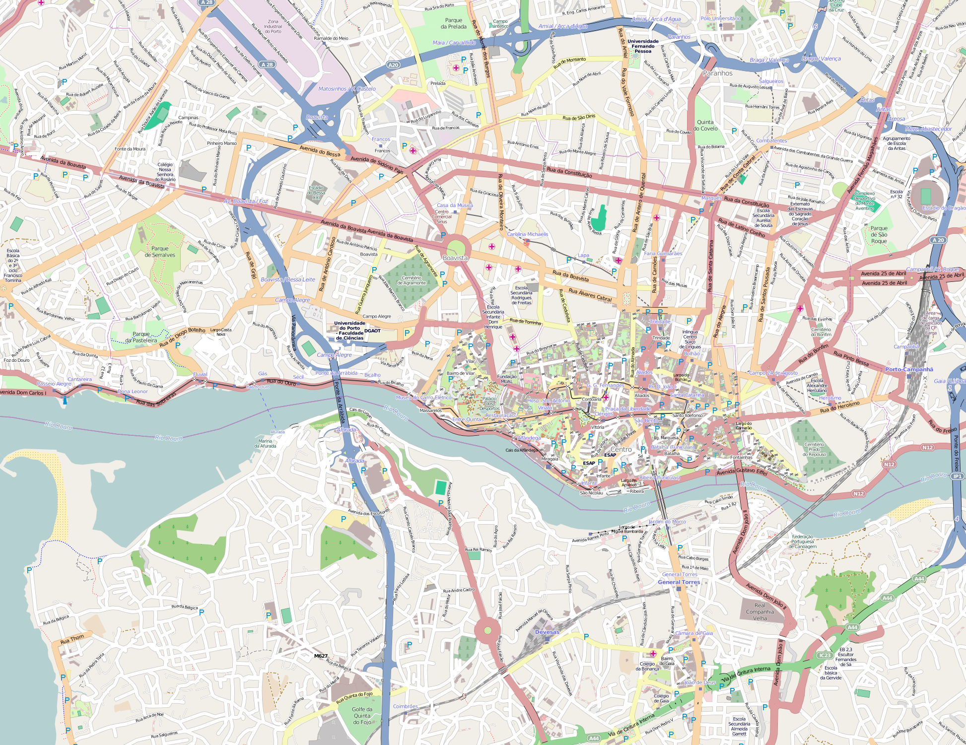 Location map of Oporto